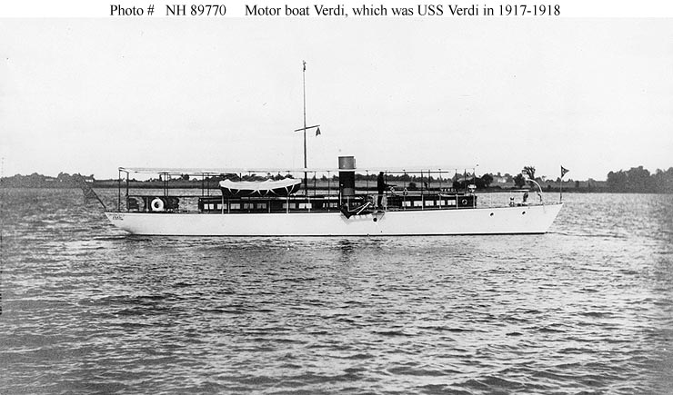 The private motorboat Verdi prior to her United States Navy service as the patrol vessel .